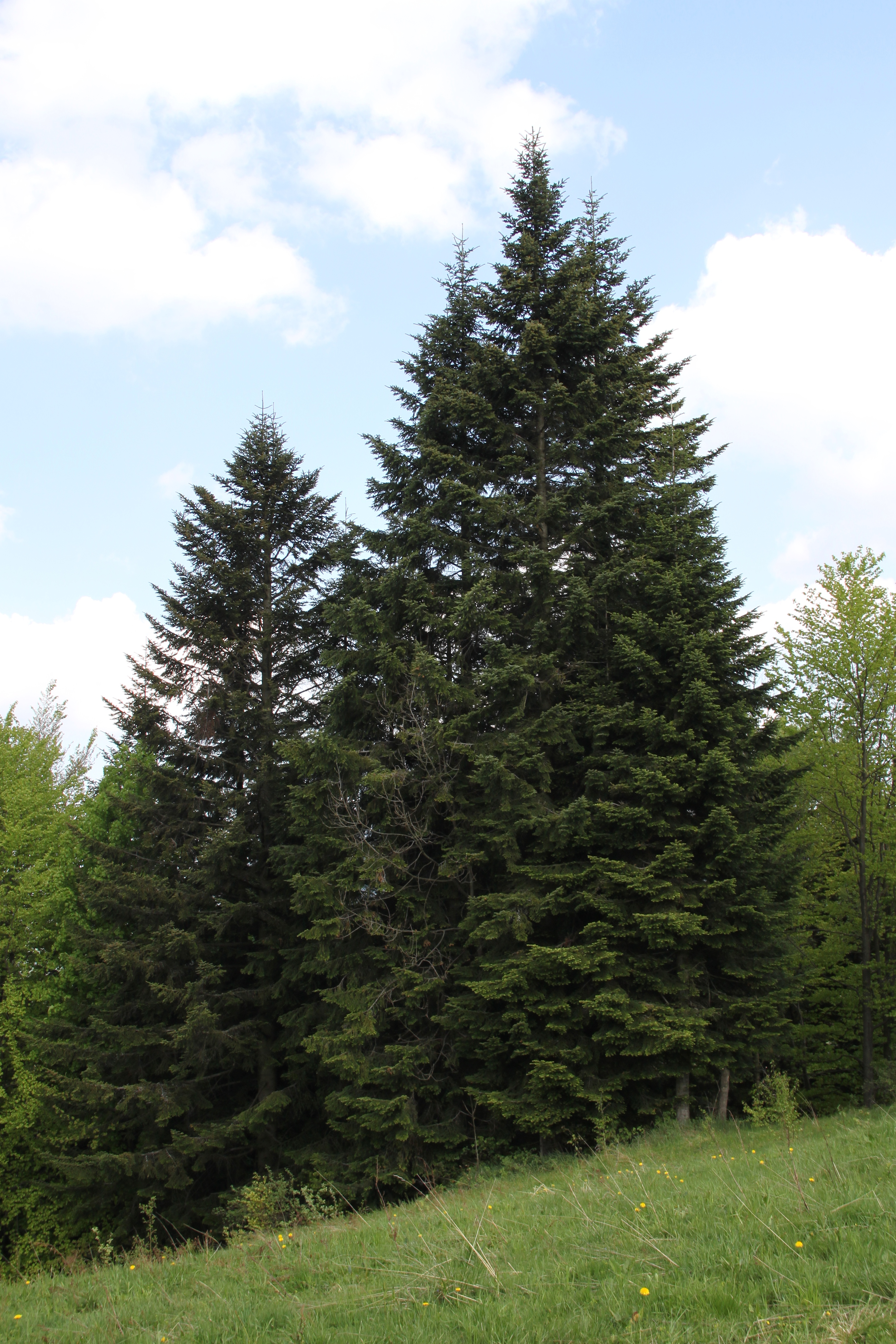 Silver Firs (Abies alba) in Beskid Żywiecki, Poland.